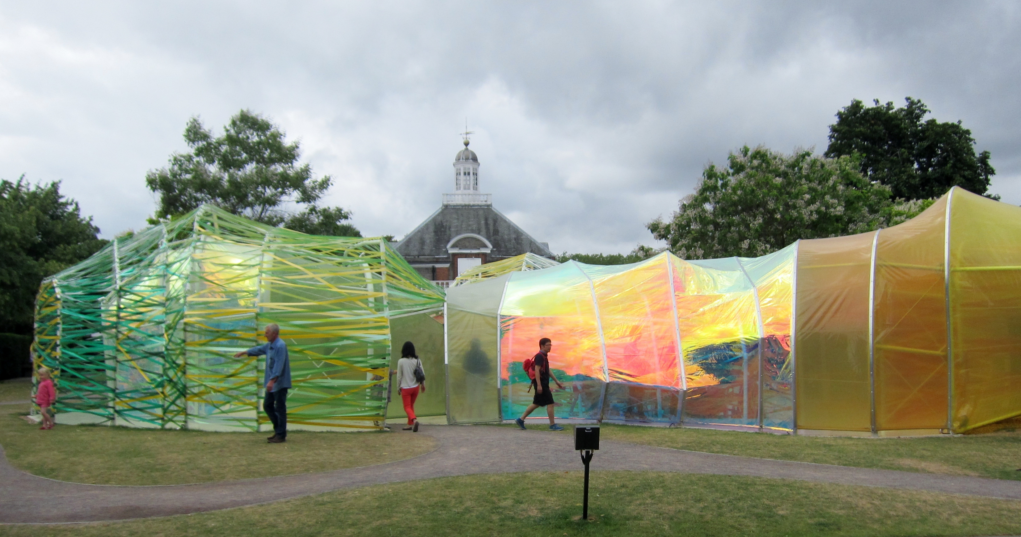 The Serpentine Pavilion of 2015 by SelgasCano.